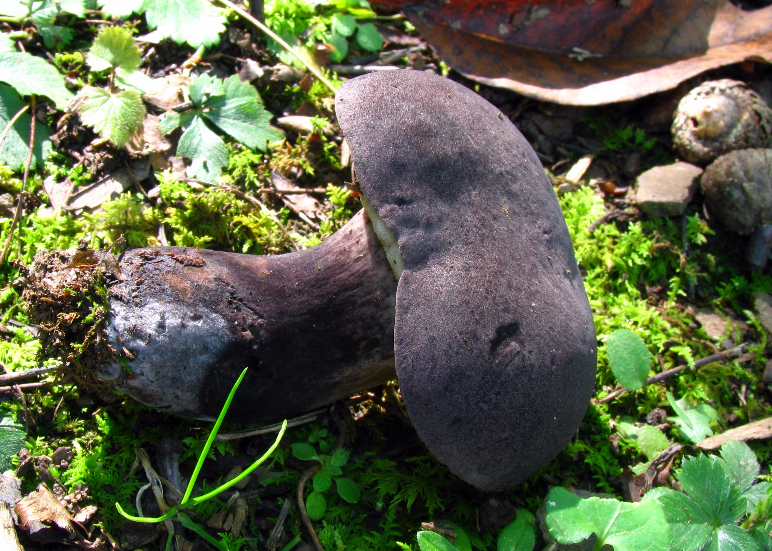 Tylopilus alboater (Schwein.) Murrill For more information about this, see the observation page at Mushroom Observer.